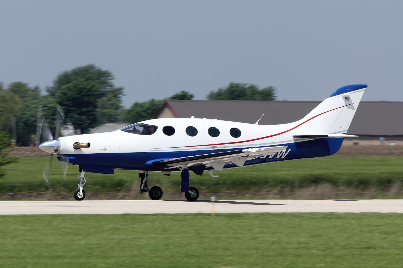 2008 Tulip Aircraft Llc EPIC LT C/N 021